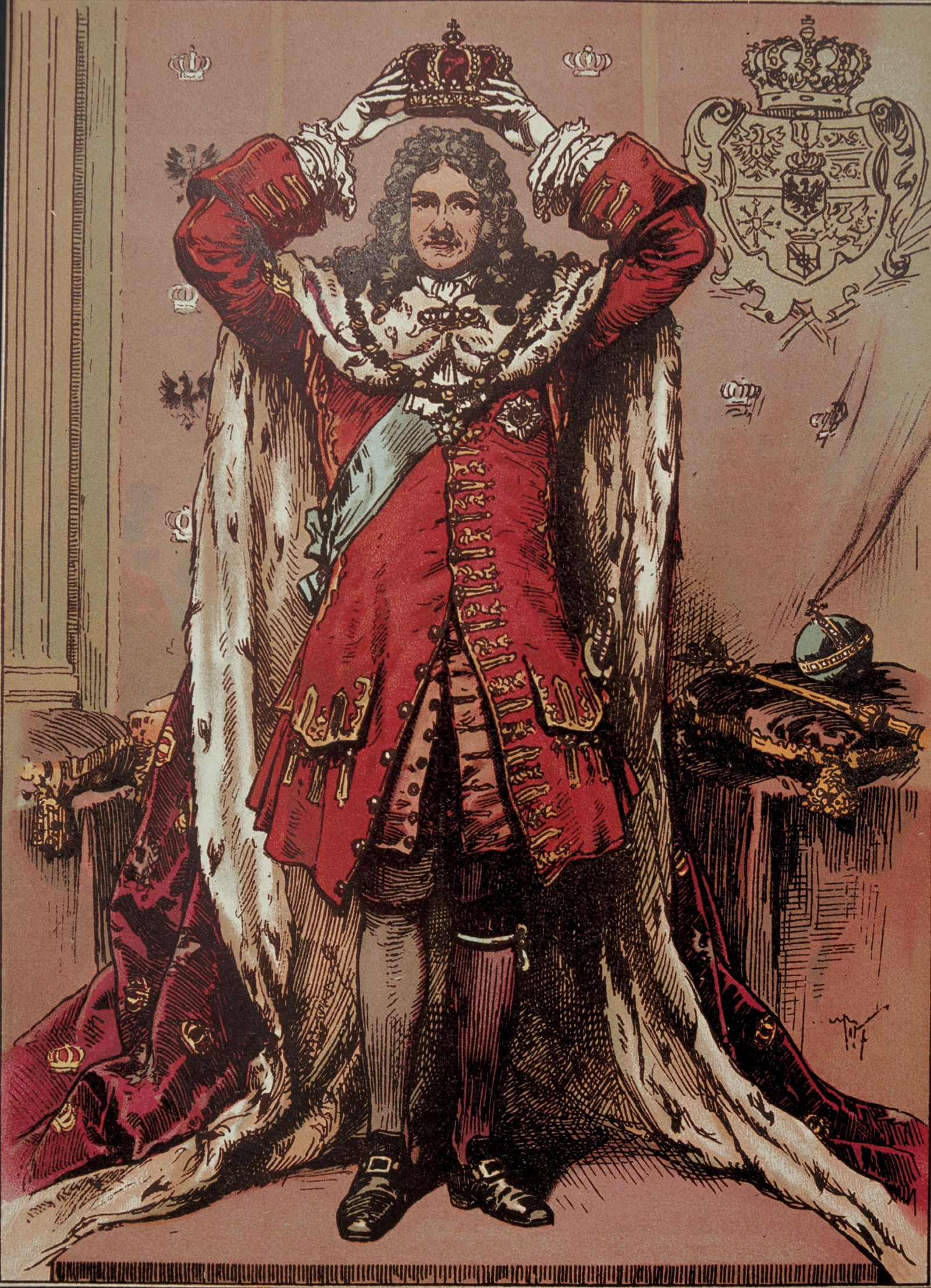 Self-coronation of Frederick I of Prussia 1701 in Königsberg (title "King in Prussia"), engraving